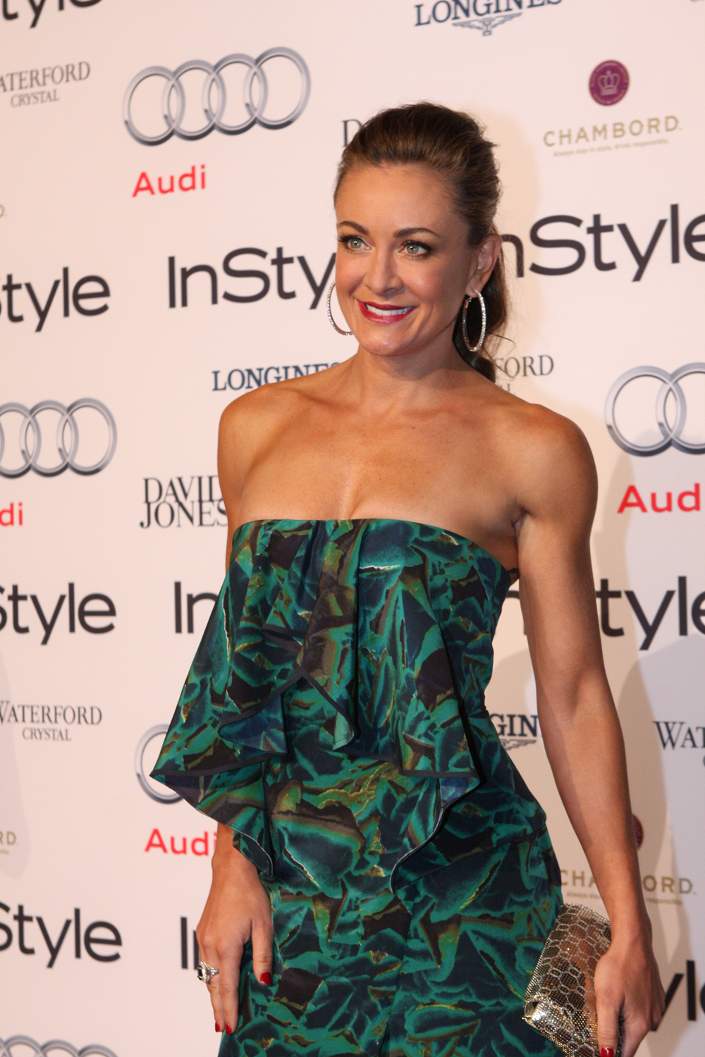 Michelle Bridges on the red carpet of the 2012 InStyle Women Of Style Awards.